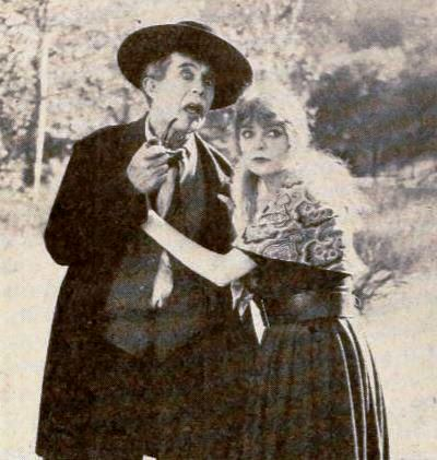 Still from the American western film Fighting Cressy (1919) with an unidentified actor and Blanche Sweet, on page 46 of the December 13, 1919 Exhibitors Herald.